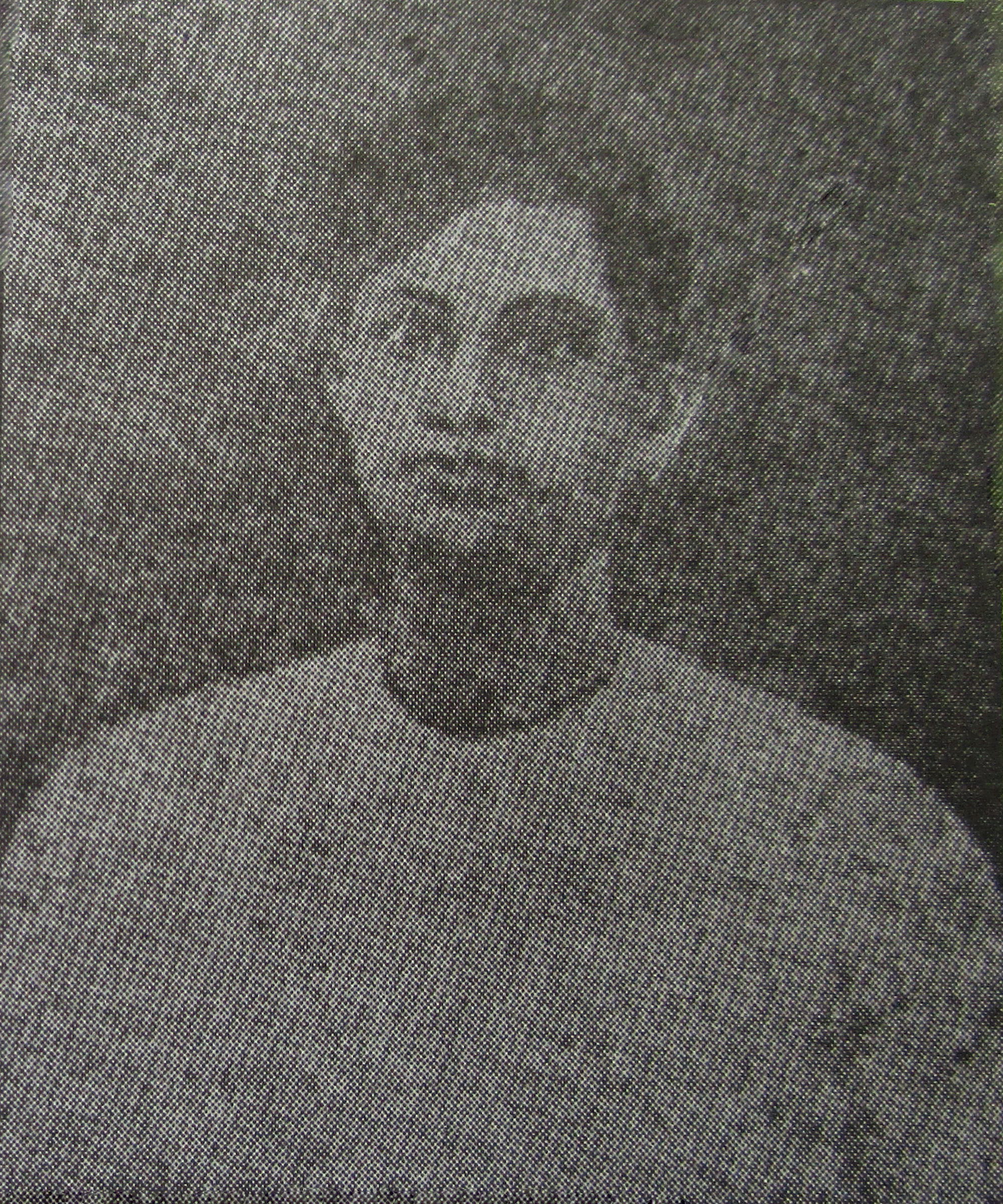 Proddot Vottacharya